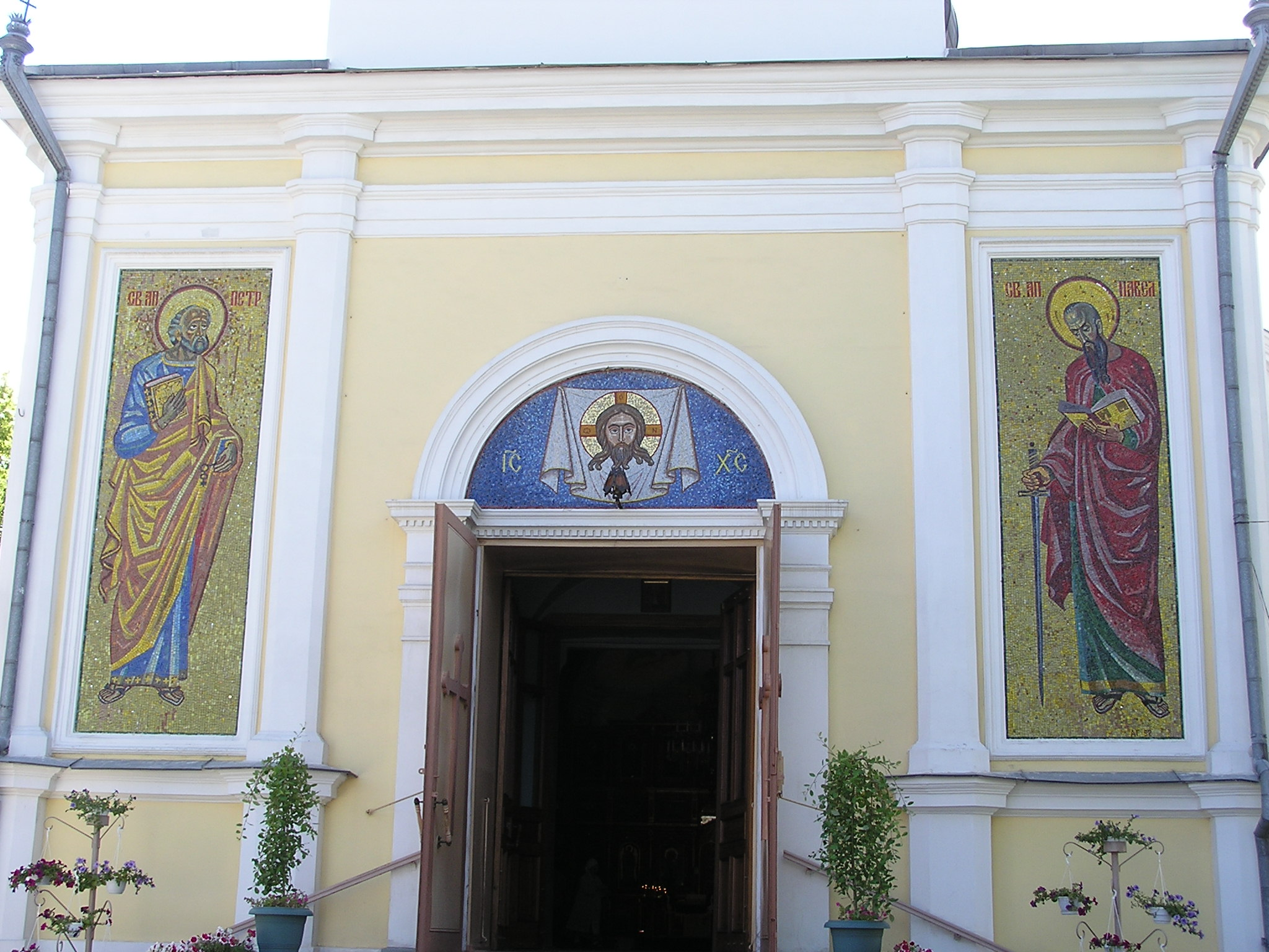 Simferopol - Saints Peter and Paul church.